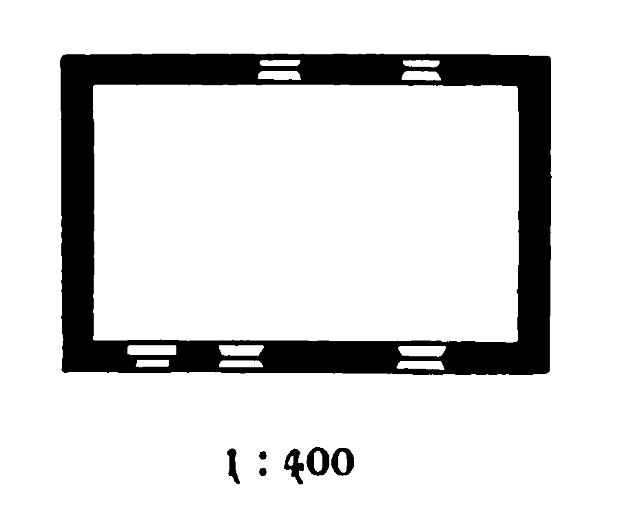 This is the photograph of an architectural monument. It is part of the list of cultural monuments of Bünde